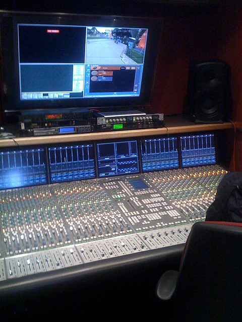 ABC outside broadcasting van unknown console Event Opal studio monitor